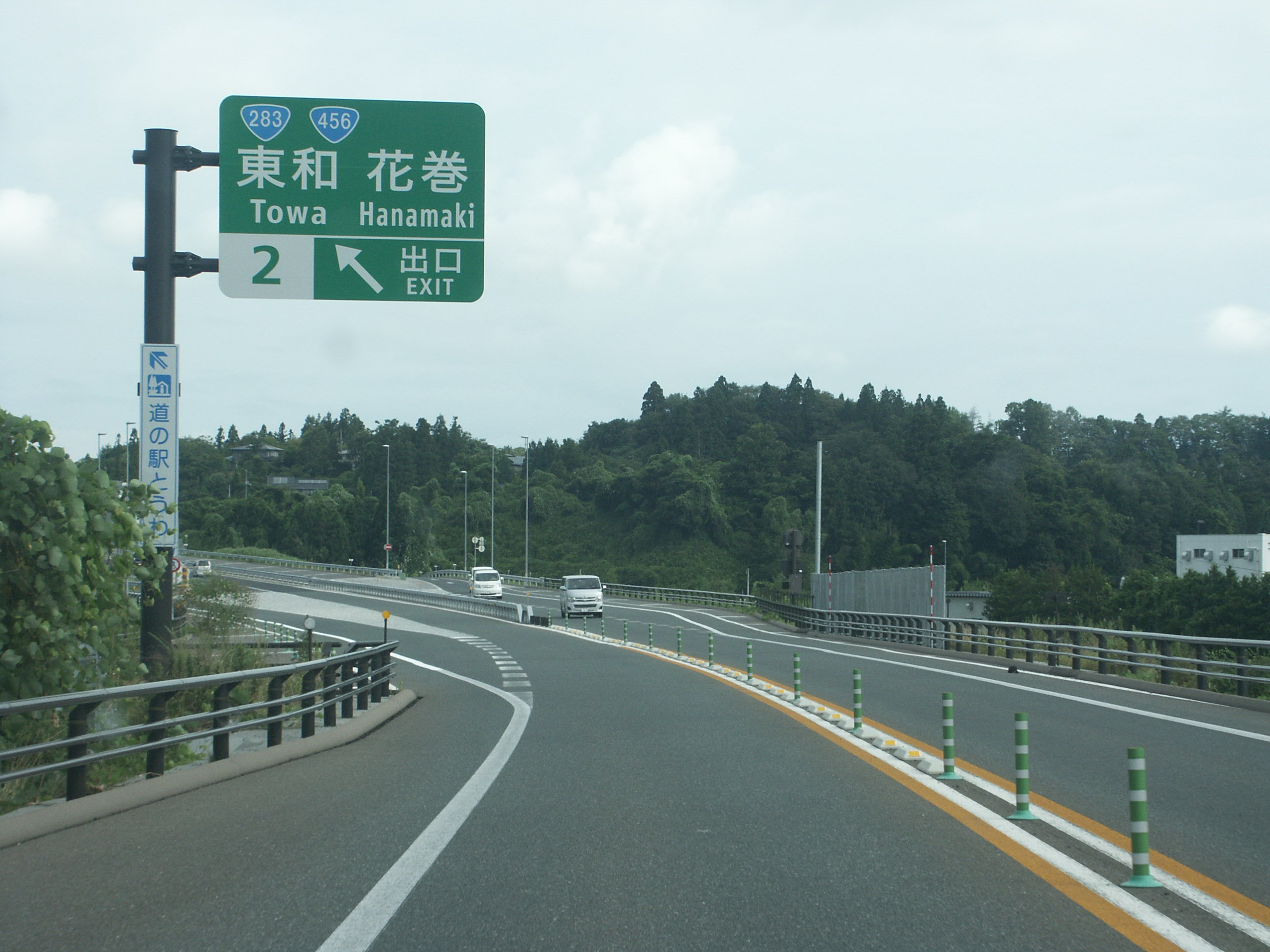 Towa Interchange on the Kamaishi Expressway westbound line